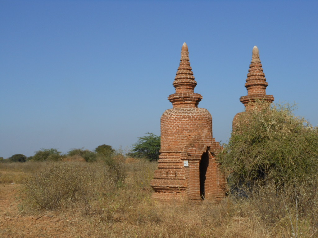 Twin Temples